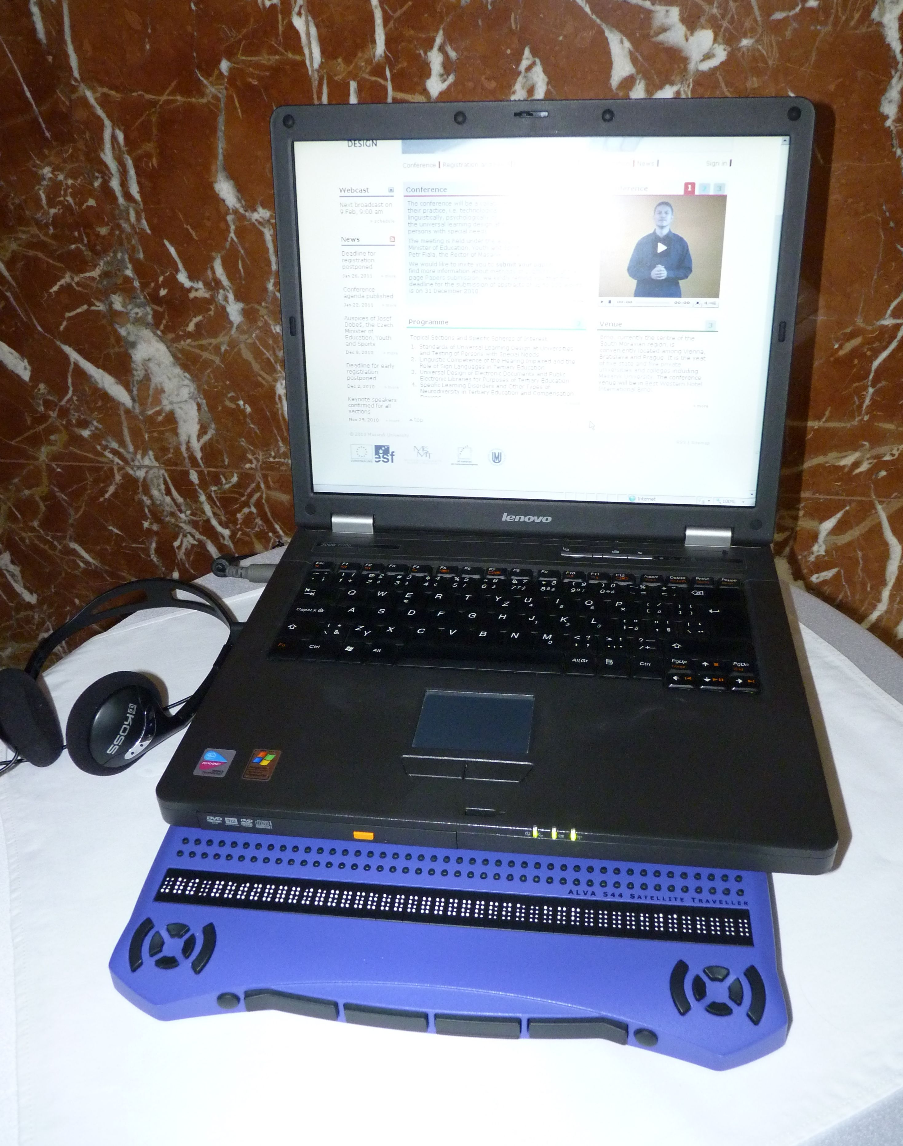 Braille laptop. Universal Learning Design Conference, Brno, Czech Republic. On display is a Lenovo 3000 C100 notebook.